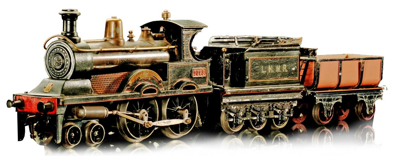 Bing Lokomotive 'King Edward' lifesteam gauge II